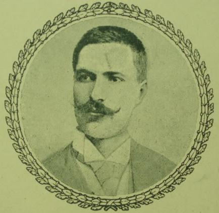 portrait ot Lazar Poptrajkov